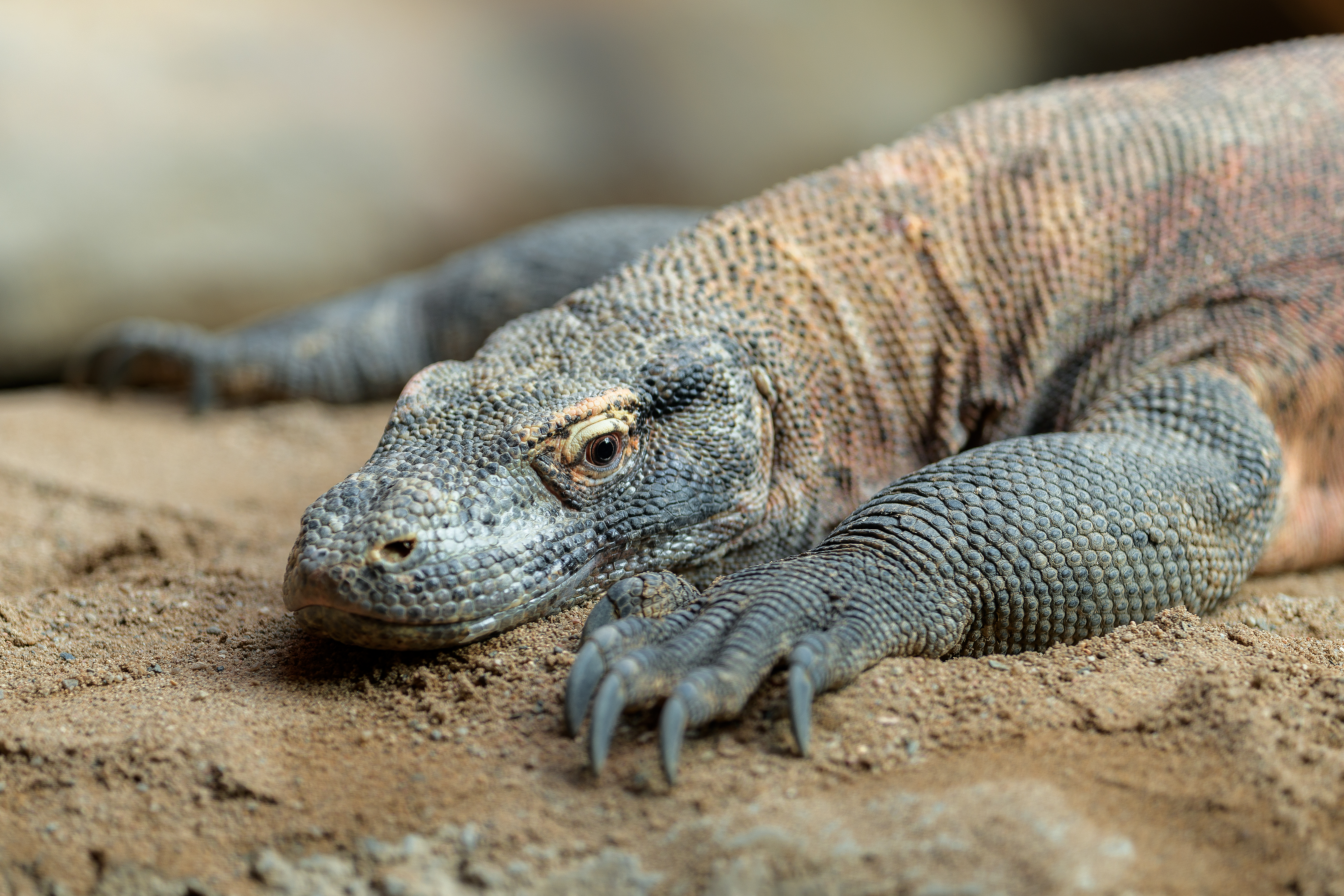 Komodo dragon, Prague Zoo